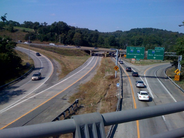 Interstate 70/79 Split in Washington, Pennsylvania, looking northward above Interstate 79 towards Interstate 70. Photo was taken before flyover construction.